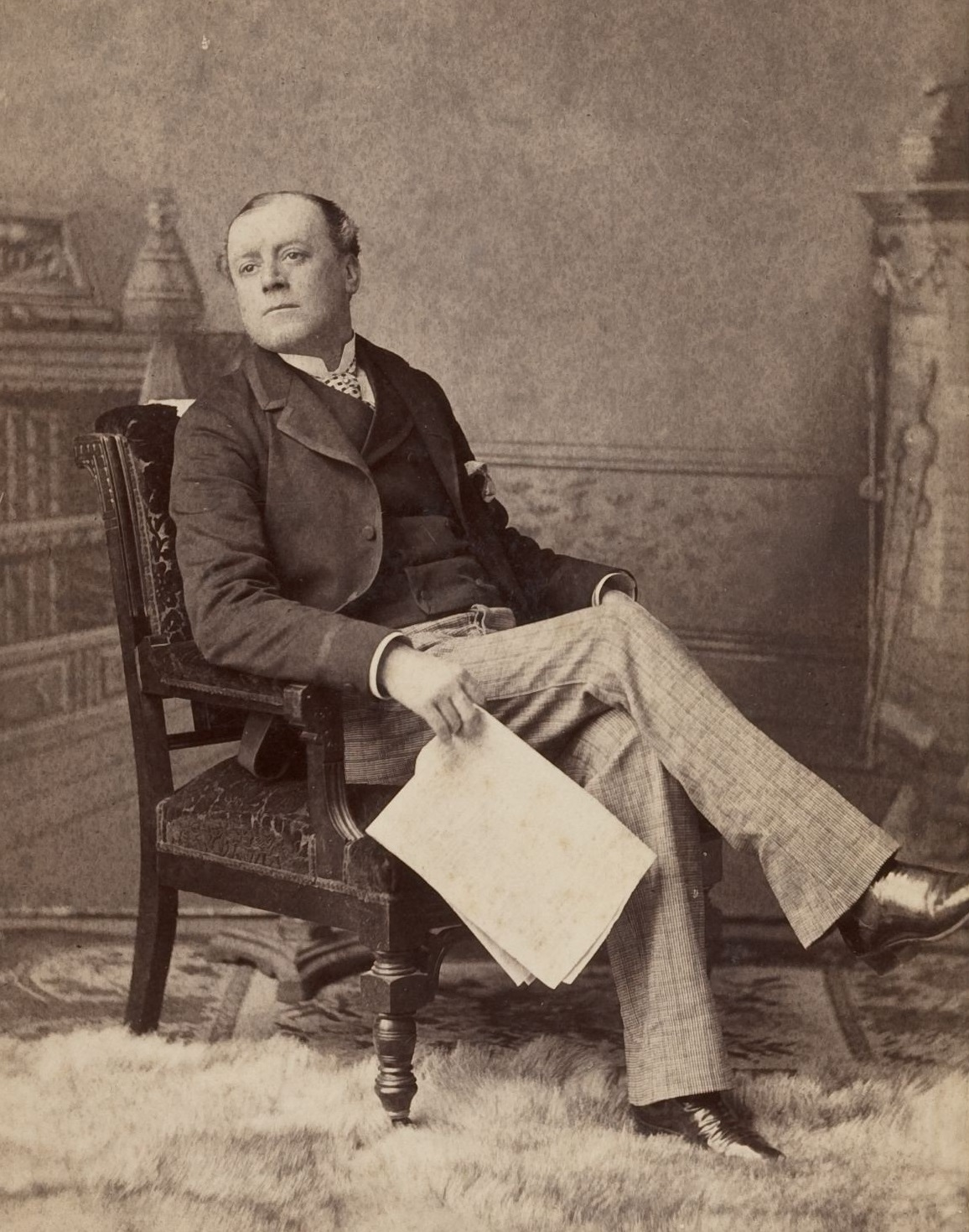 Cabinet card image of American actor Verner Clarges (1846-1911). Cropped version. TCS 1.5100, Harvard Theatre Collection, Harvard University